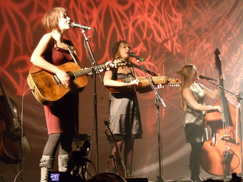 Swedish bluegrass-countryband Abalone Dots performing at the Pontushallen in Luleå in November 2007. From left: Rebecka Hjukström, Sophia Hogman, Louise Holmer.